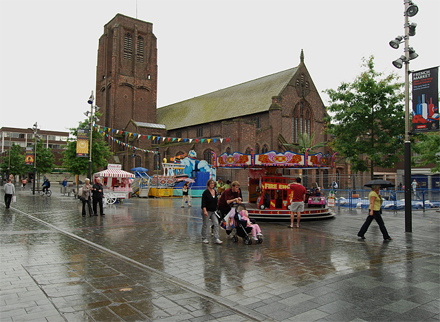 Church Square, St Helens, Merseyside, seen from the northwest on a wet July morning, looking across the square to the parish church of St Helen